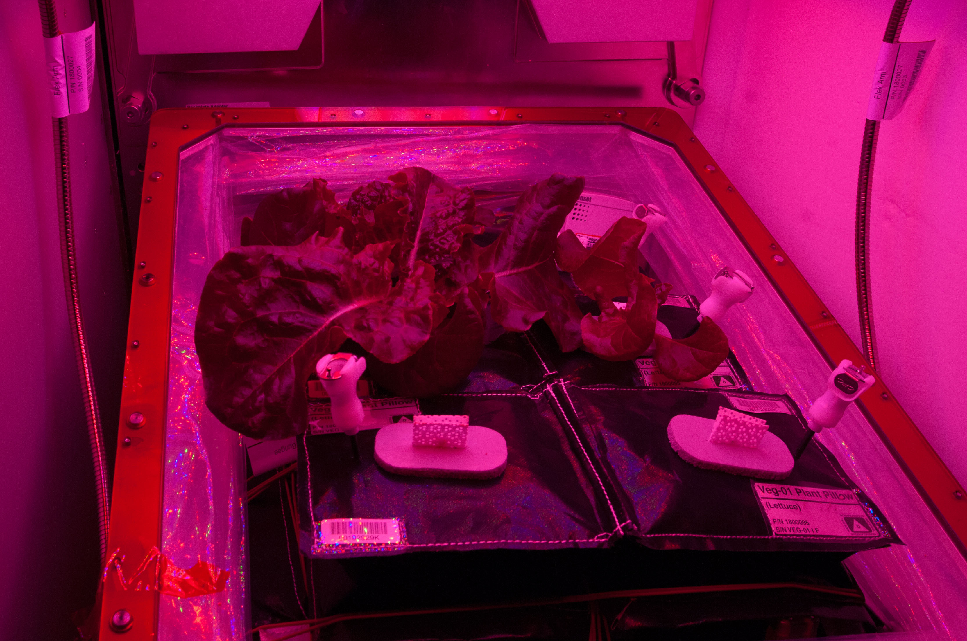 One of the Expedition 40 crew members on the International Space Station took a series of photos of the Vegetable Production System (Veggie) recently added to the orbital outpost. The experiment deals with the growth and development of 'Outredgeous' Lettuce (Lactuca sativa) seedlings in the spaceflight environment and the effects of the spaceflight environment on composition of microbial flora on the Veggie-grown plants and the Veggie facility. The purple light is the wavelength that is supposed to best promote photosynthesis and growth for the plants.